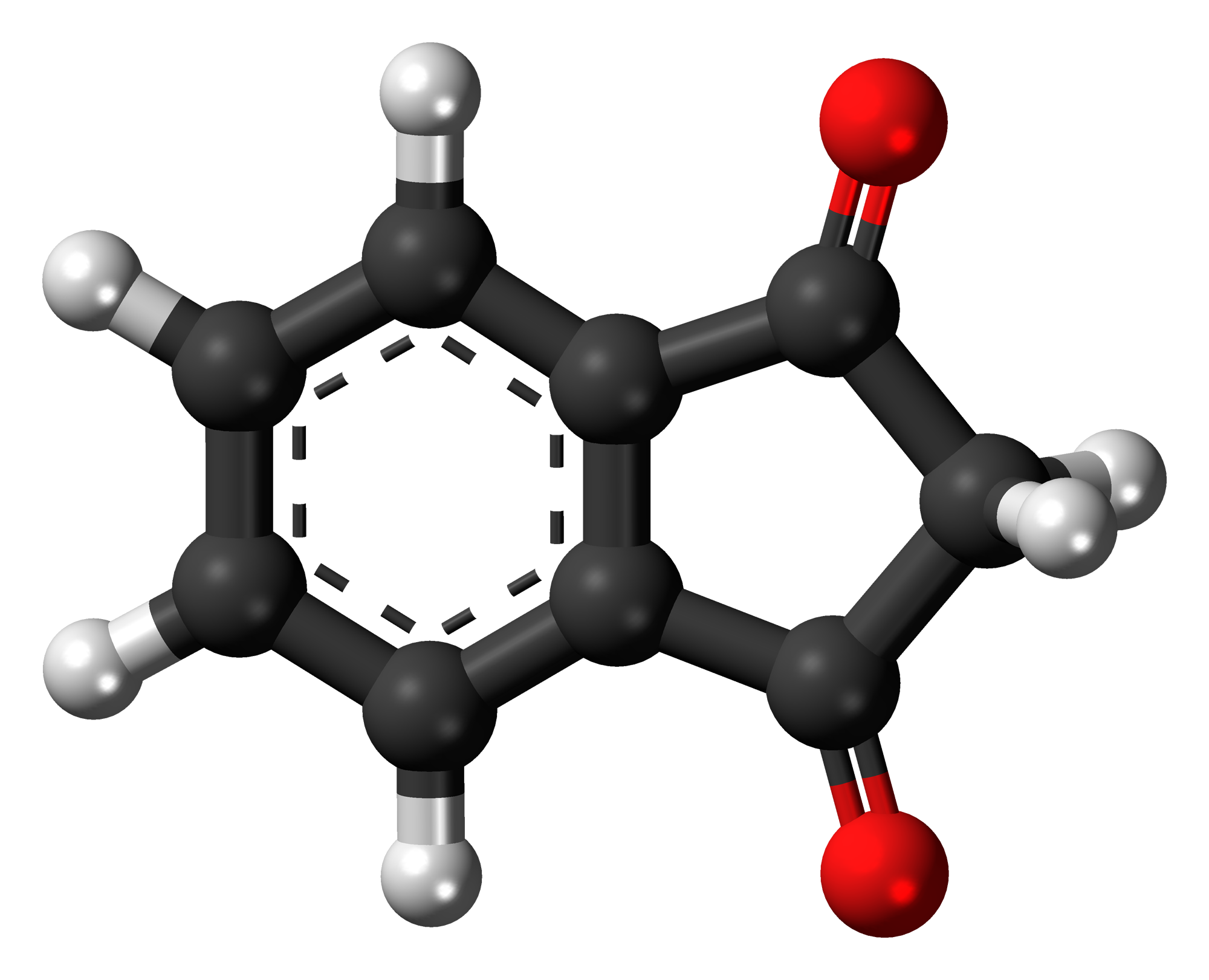 Ball-and-stick model of the indandione molecule, a rodenticide. Colour code: Carbon, C: black Hydrogen, H: white Oxygen, O: red